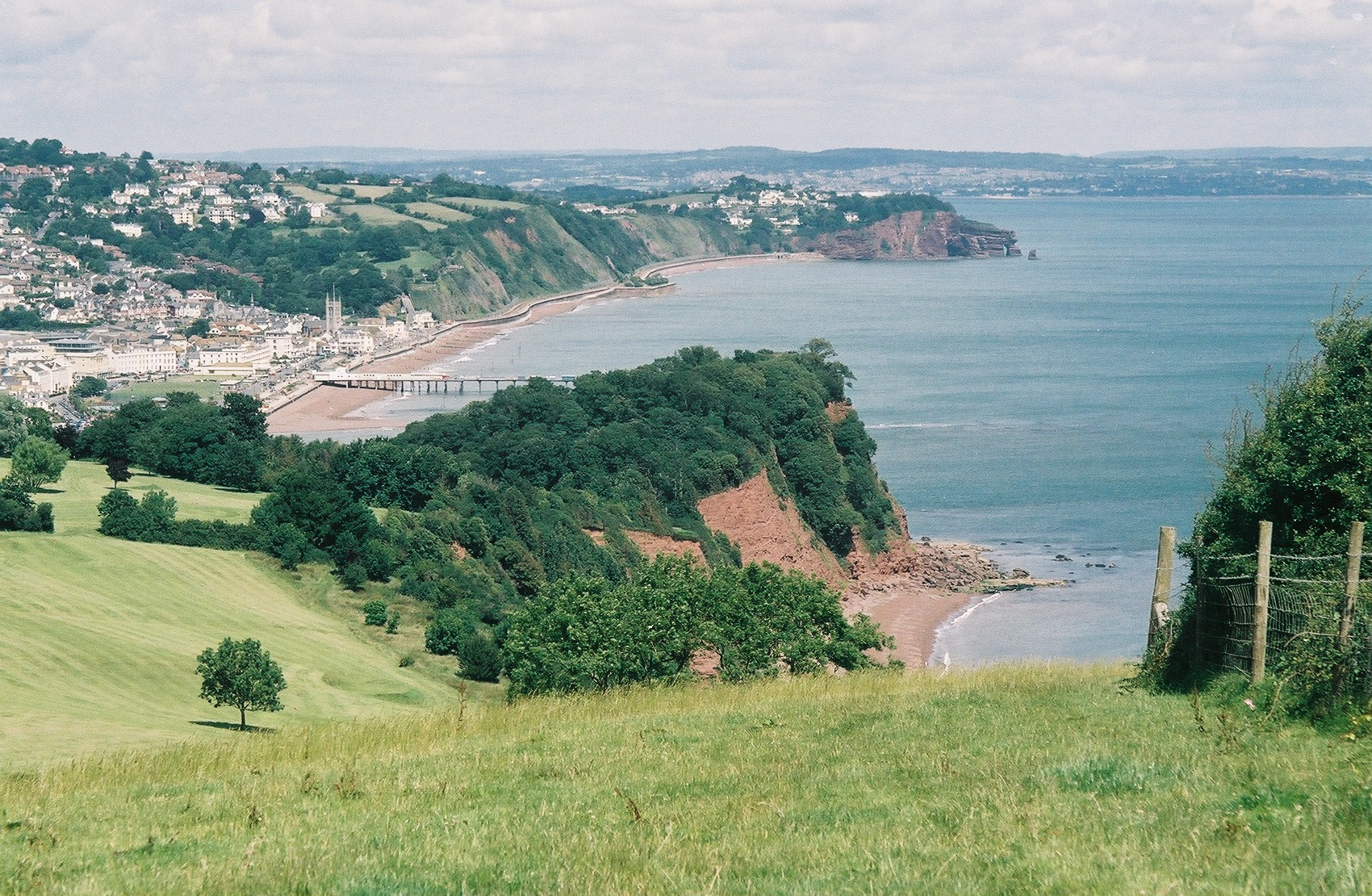 Estuary of Teignmouth seen from above Shaldon across the Ness